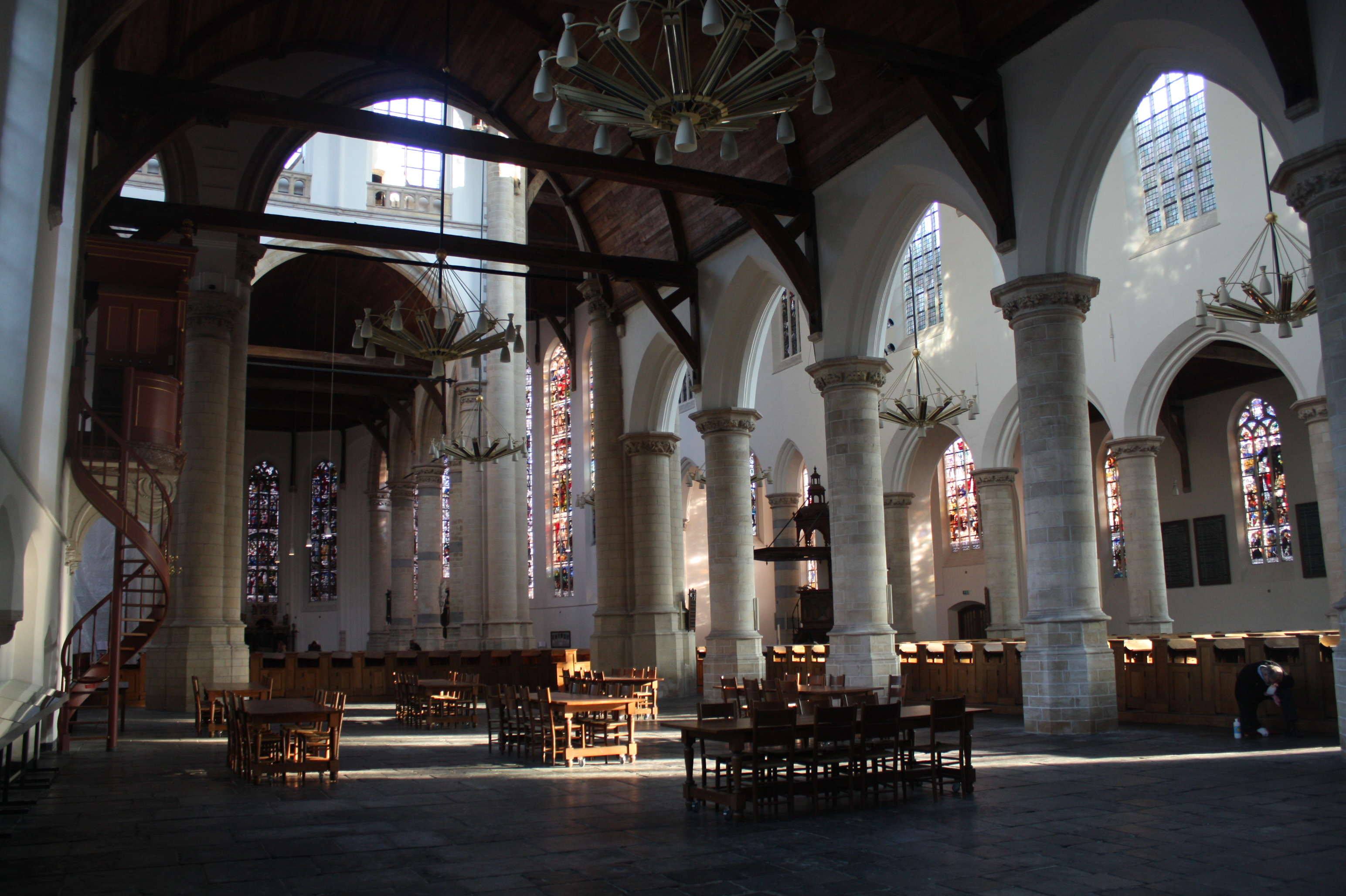 Delft, Oude Kerk (The Old Church)